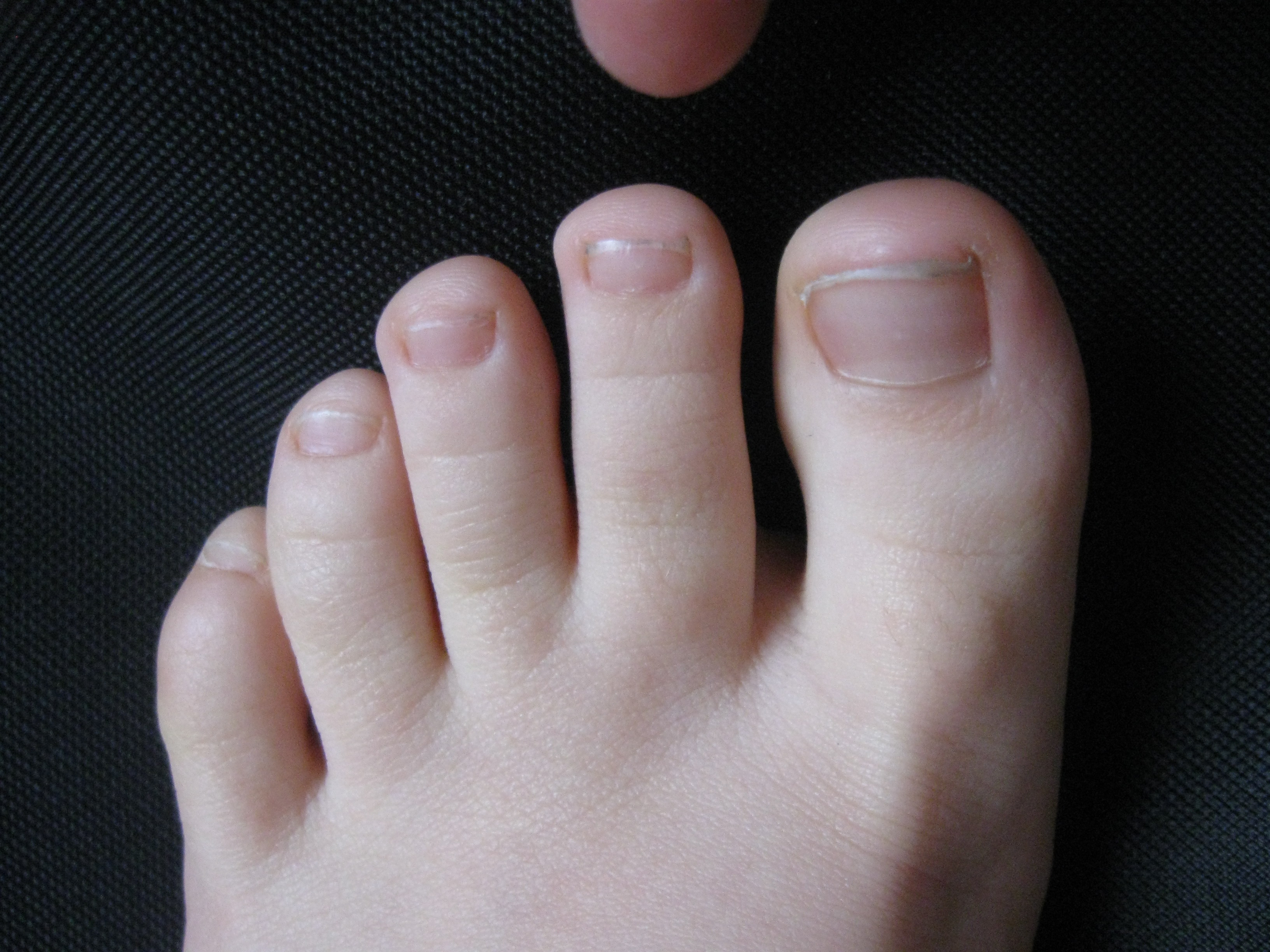 Long toe for left leg.